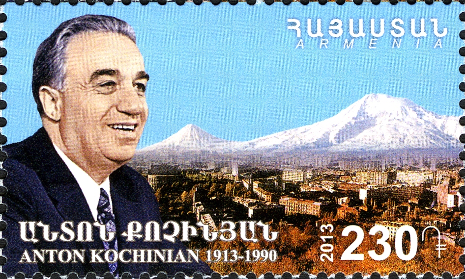 100th Anniversary of Anton Kochinyan